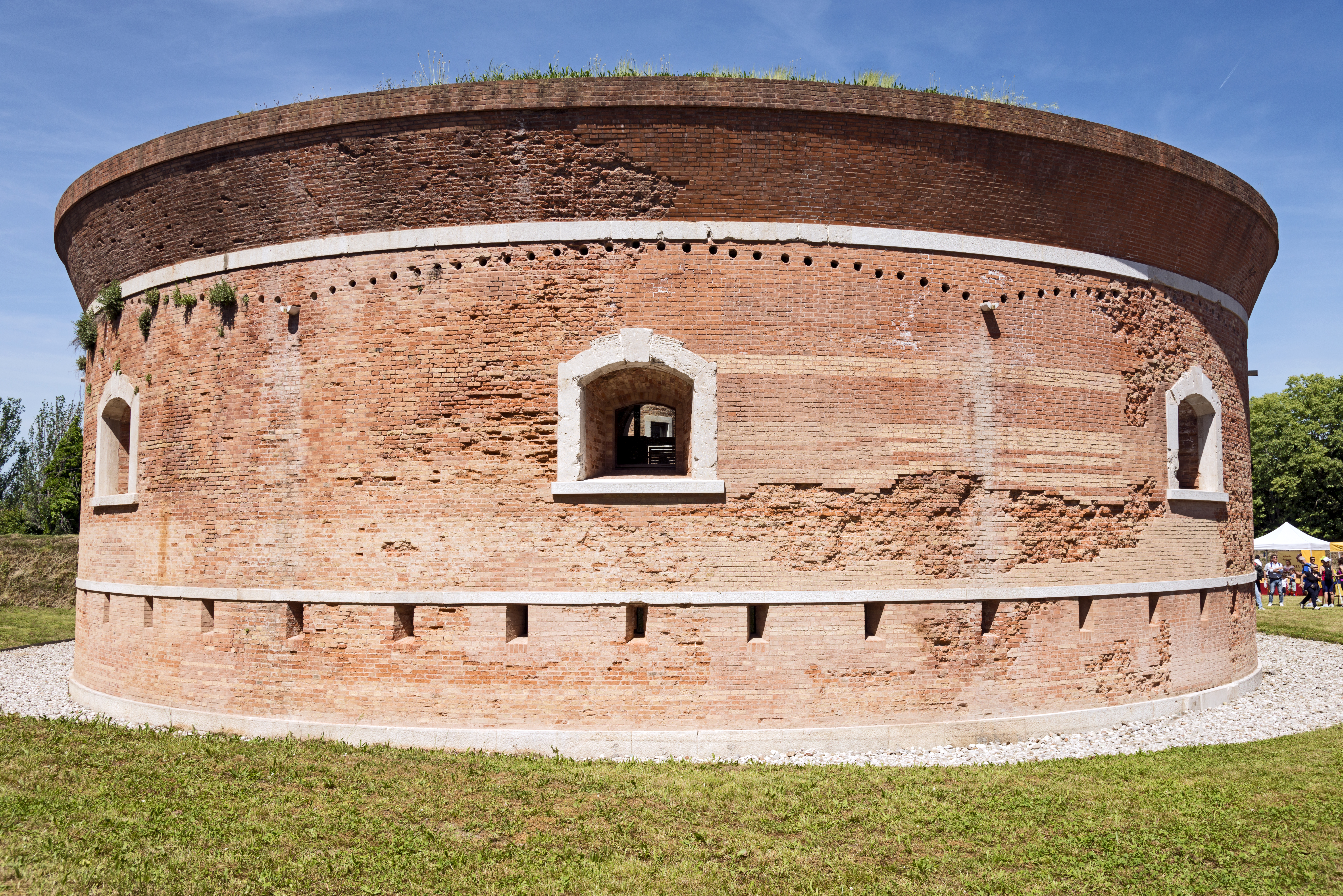 La Torre Massimiliana: is a nineteenth century fortress located on the island of Sant'Erasmo in the northern part of the lagoon of Venice in front of the tip of Lido.